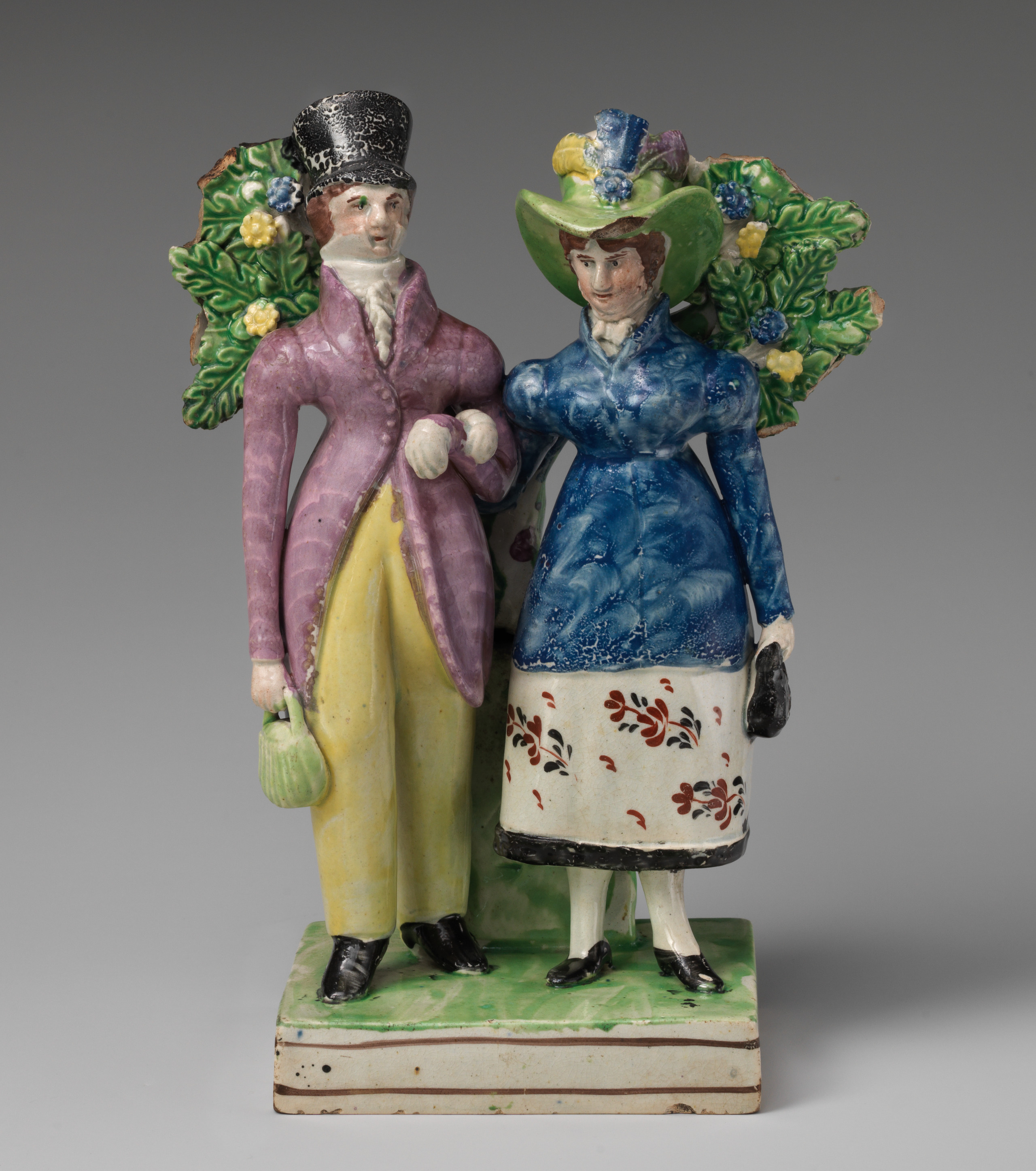 British, Staffordshire; Group; Ceramics-Pottery